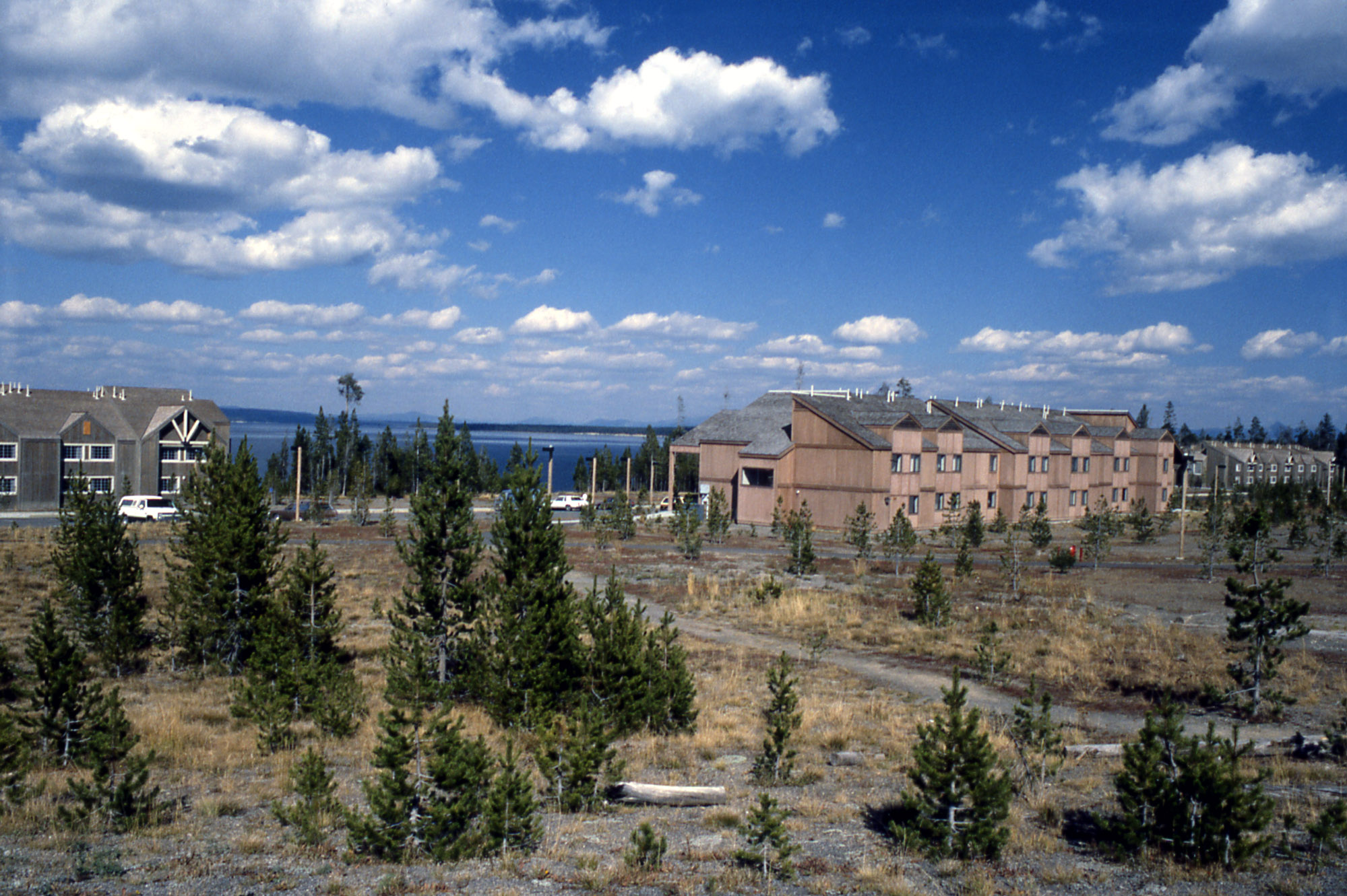 Grant Village lodging units in Yellowstone National Park, Wyoming, USA